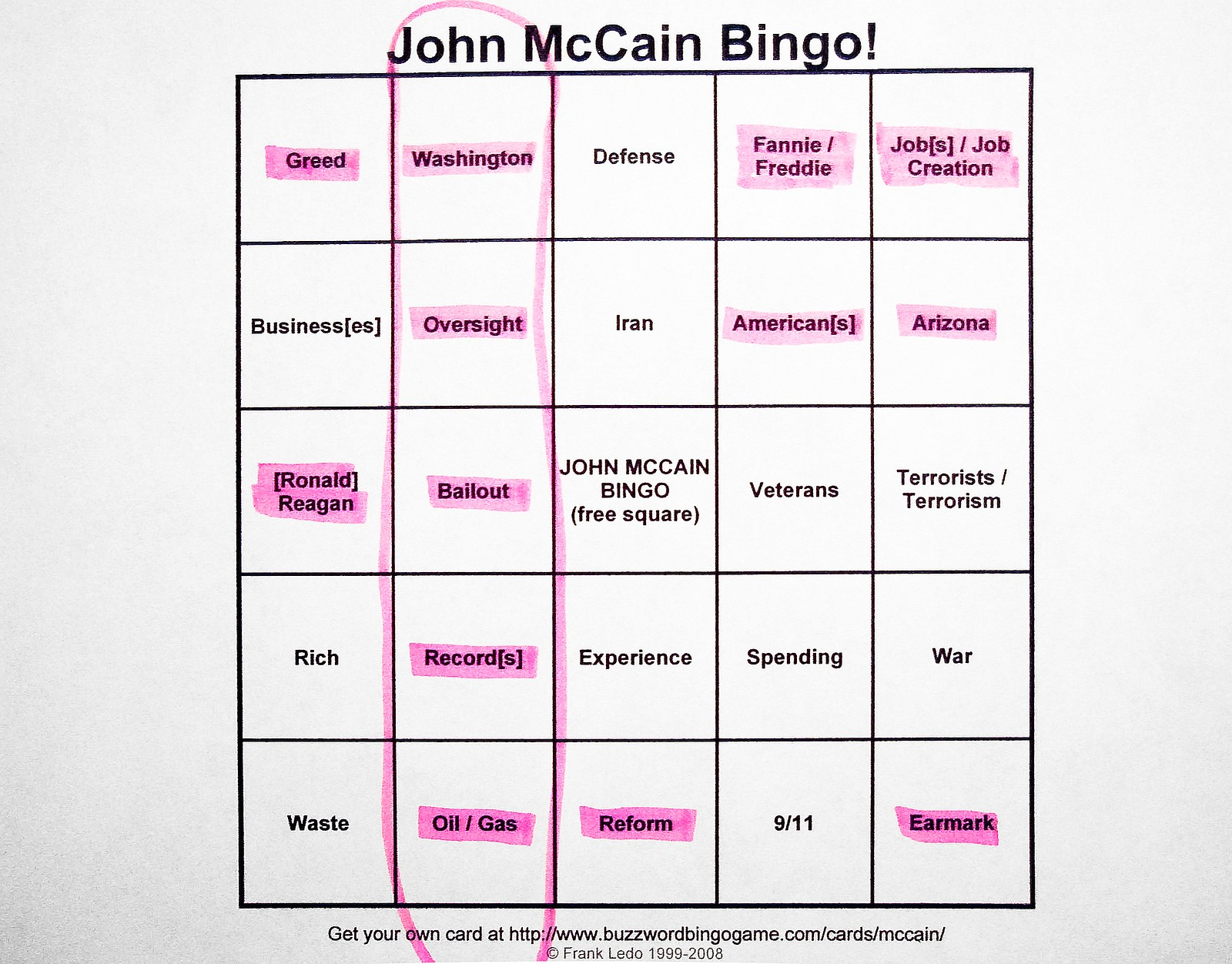 John McCain Buzzword Bingo, 2008. Wife had a bingo on this card 25 minutes into the 90 minute debate.